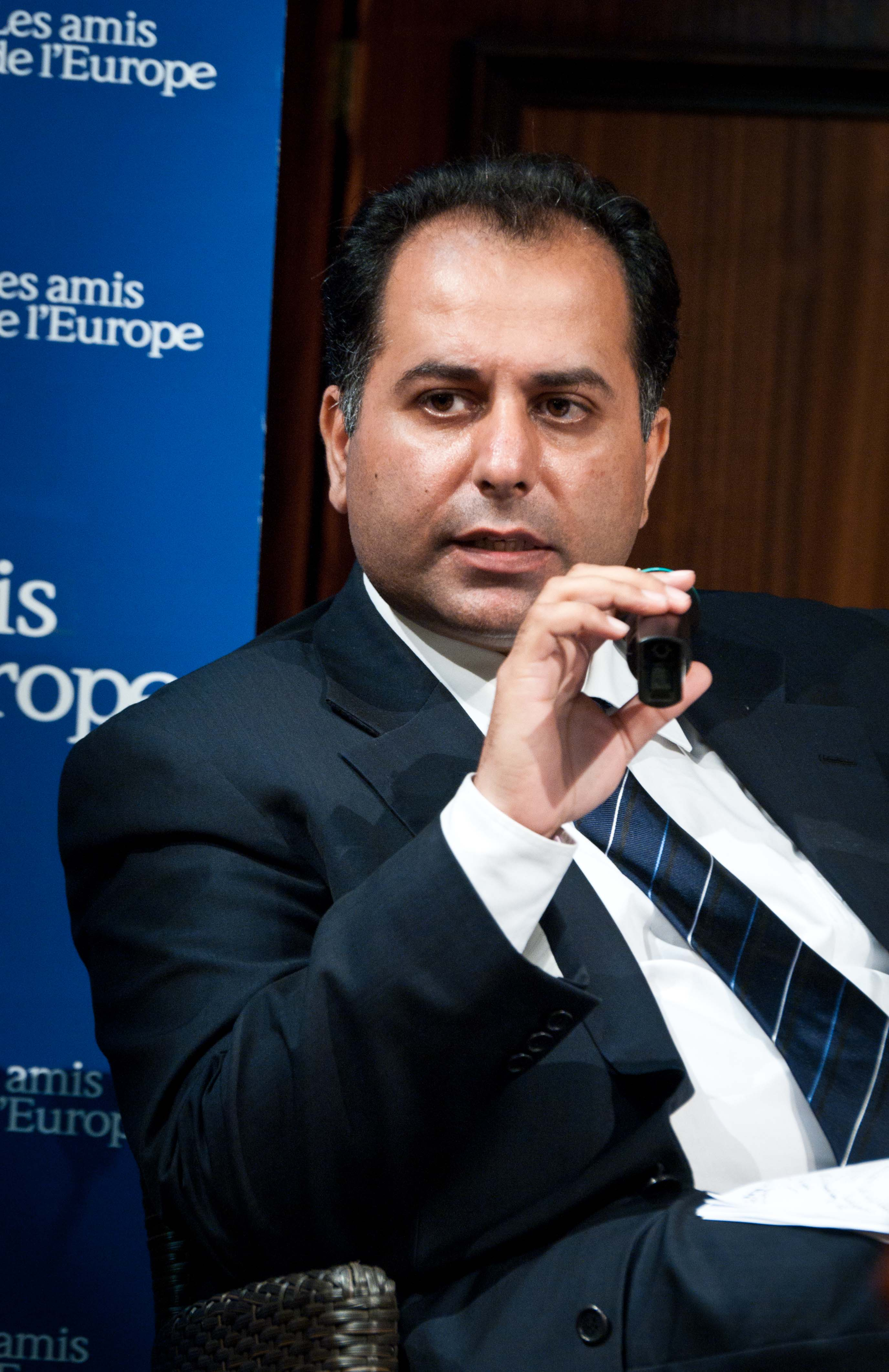 Sajjad Karim MEP, Member of the European Parliament Committee on Industry, Research and Energy